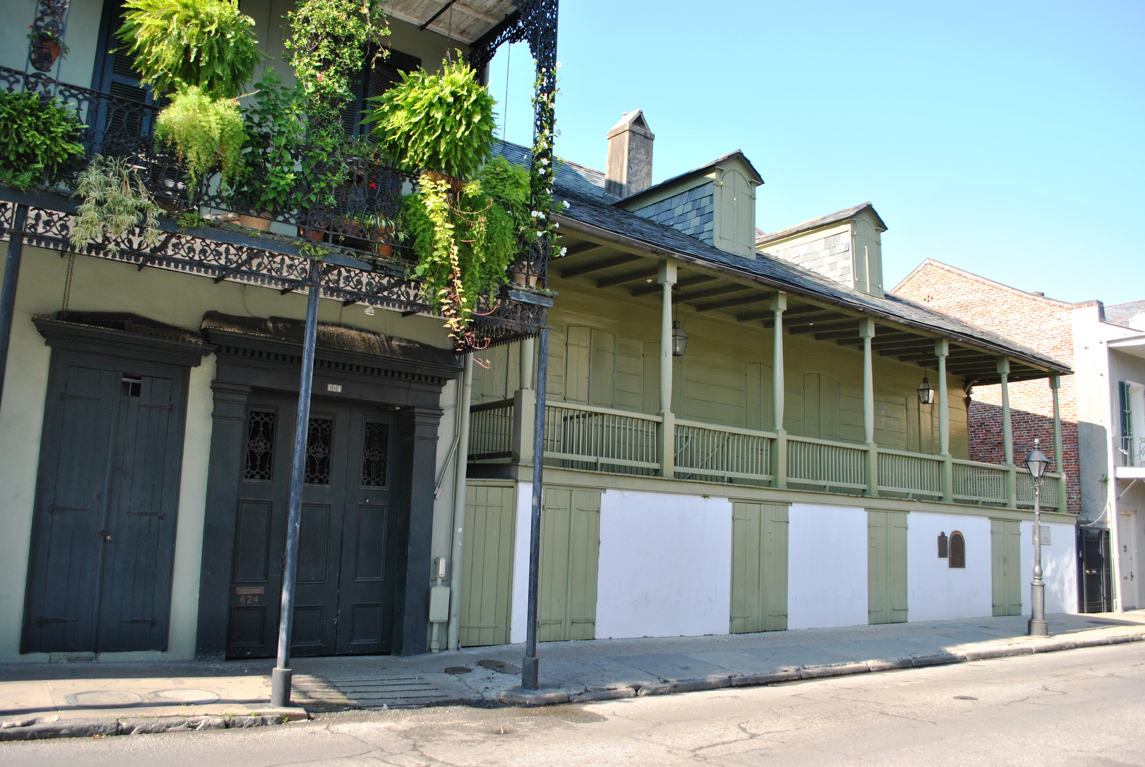 Residence of Don Manuel Lanzos Captain of the Spanish Army —Madam John’s Legacy — Erected 1788 in the French colonial style Robert Jones, an American, builder. Site of the birthplace of Renato Beluche (1781-1860) a lieutenant of Jean Lafitte’s Baratarians who participated in the Battle of New Orleans Later Admiral of the Venezuelan Navy. The house was refferred to as ‘Madam John’s Legacy’ in Geo. W. Cable’s story ‘Tite Poulette’ in 1879 An earlier house was erected on part of this site about 1726 by Jean Pascal, a sailor killed in the Natchez Massacre in 1729, and occupied by his widow until her death in 1777. The house was presented to the Louisiana State Museum by Mrs. Stella Hirsch Lewann on June 23, 1947. Restored in 1974.